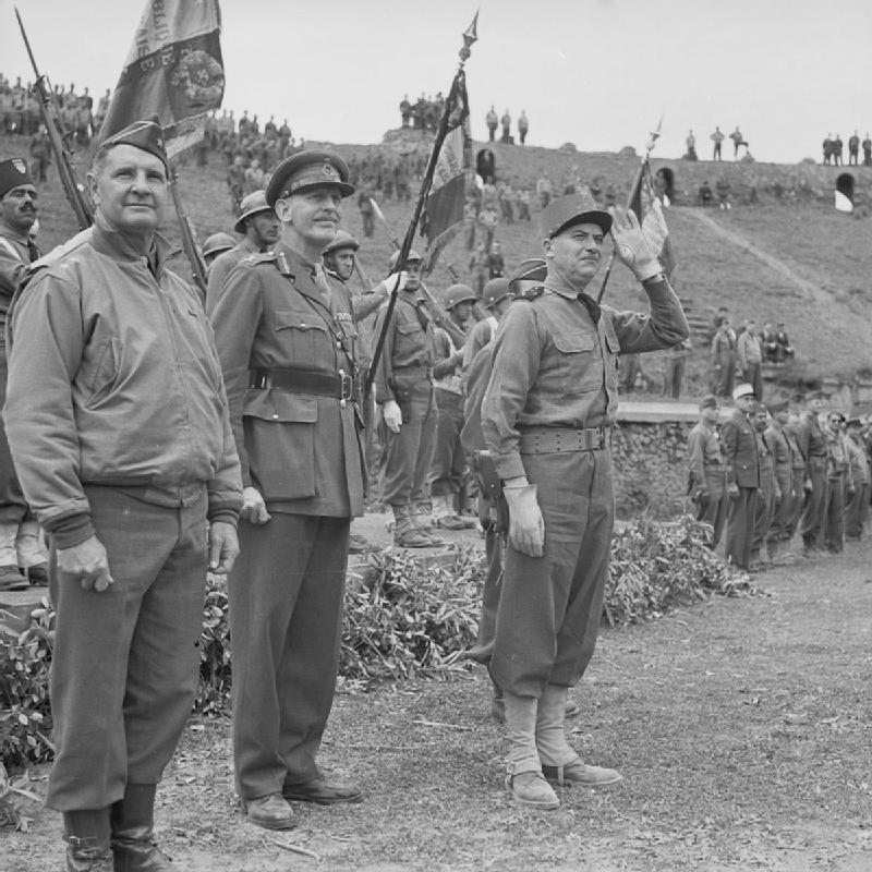 Commander of the US II. Corps, major general Geoffrey Keyes with commanding general of the Naples District, Major General A. L. Collier and the Commander of the French Expeditionary Corps, general Alphonse Juin at the parade of the 3rd Algerian Regiment in Pompei.